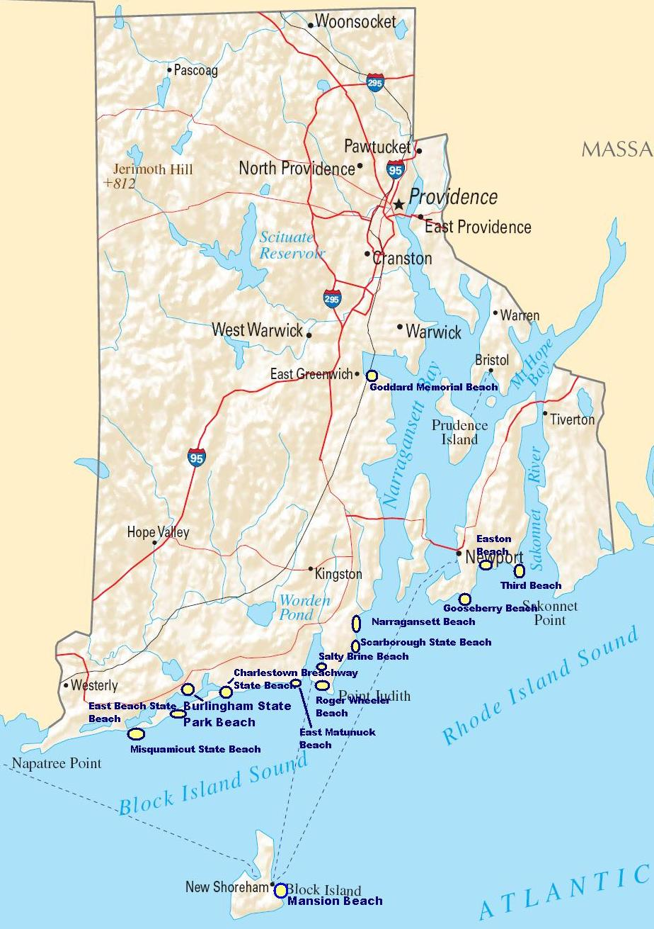 Partial map of beaches in Rhode Island, using googlemaps and MS Paint. Feel free to add more Created from Image:Map of Rhode Island NA.png, which is public domain. Summary Partial map of beaches in Rhode Island, using googlemaps and MS Paint. Feel free to add more Created from Image:Map of Rhode Island NA.png, which is public domain.